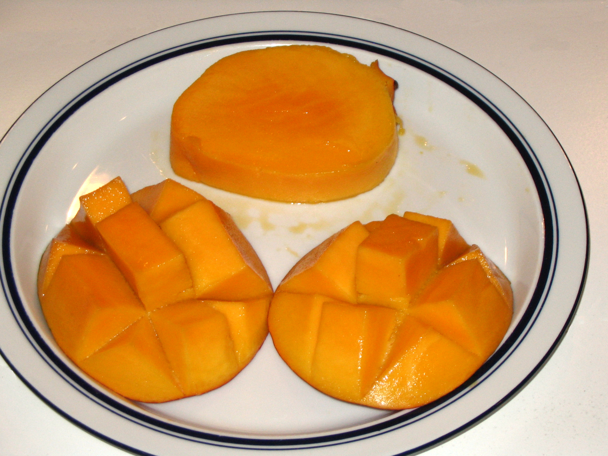 A mango of mine cut into its "hedgehog cut"